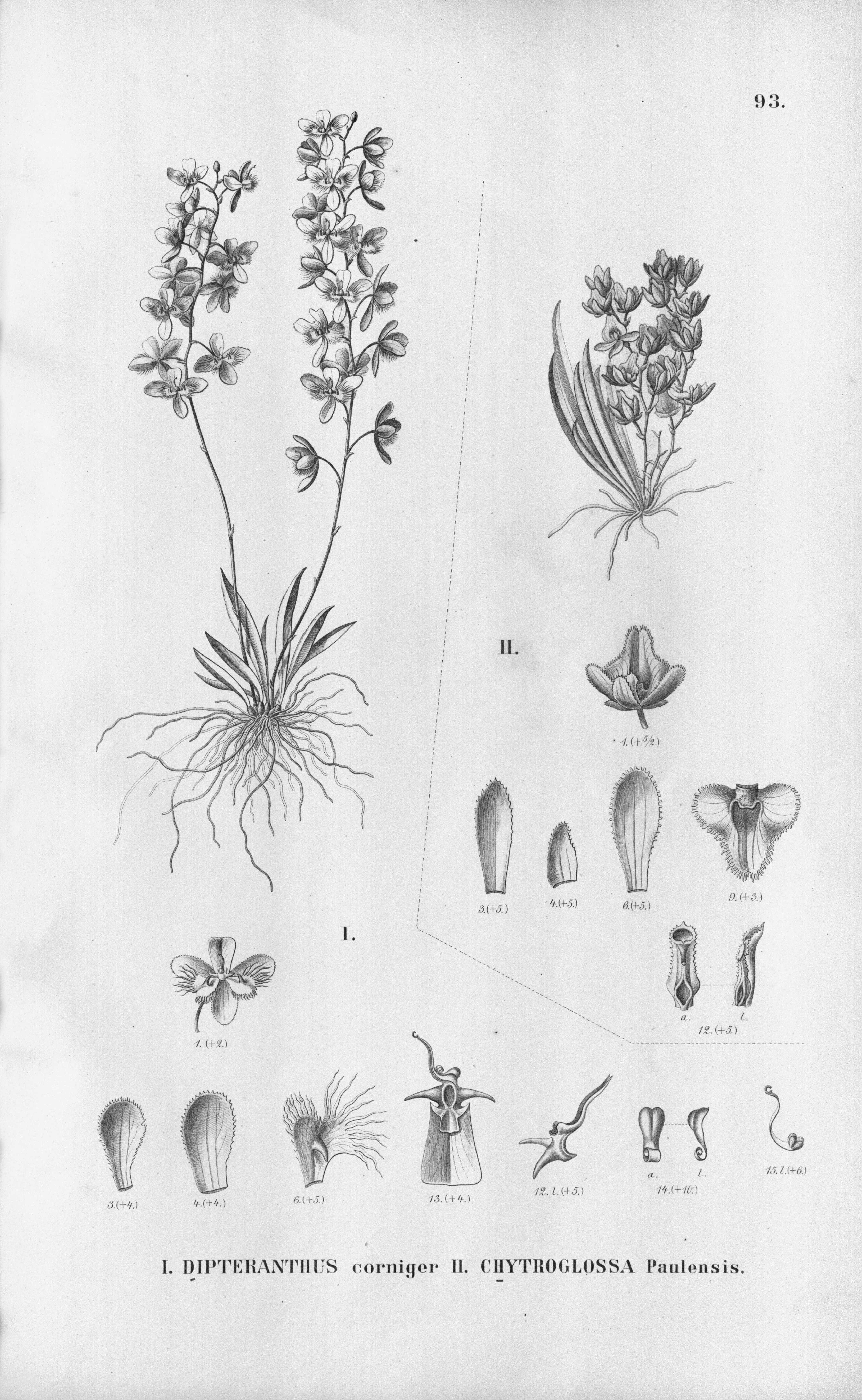 Illustration of: I. Zygostates cornigera (as syn. Dipteranthus corniger) II. Chytroglossa paulensis